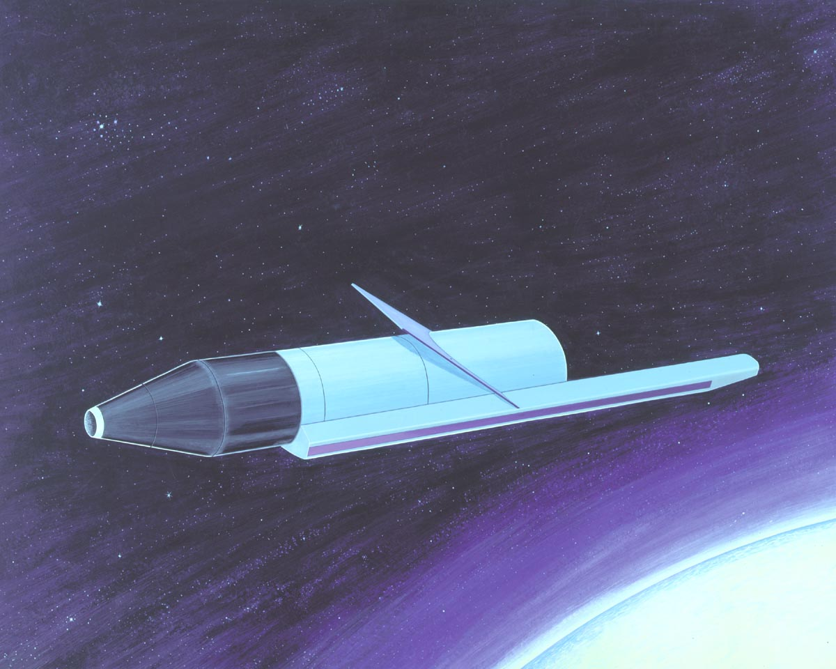 RORSAT by Ronald C. Wittmann, 1982: The Soviet Union placed a series of radar-equipped ocean reconnaissance satellites (RORSATs) in low Earth orbit beginning in 1967. Employing powerful radars and working in pairs, they located and targeted U.S. ships for destruction by Soviet naval forces. Nuclear powered RORSATs launched in the 1970s occasionally malfunctioned, including one that crashed and spread radioactive debris across northern Canada in 1978.